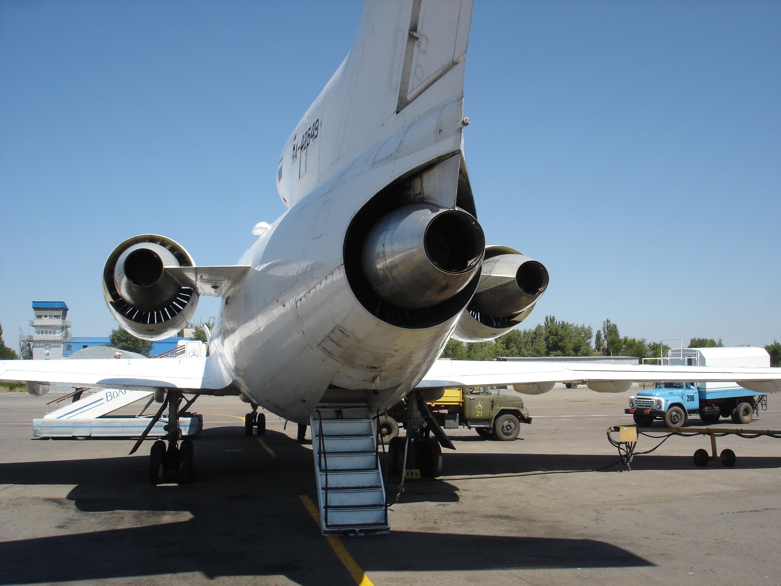 Volga-Aviaexpress Yak-42 (RA-42549) at Volgograd International Airport.